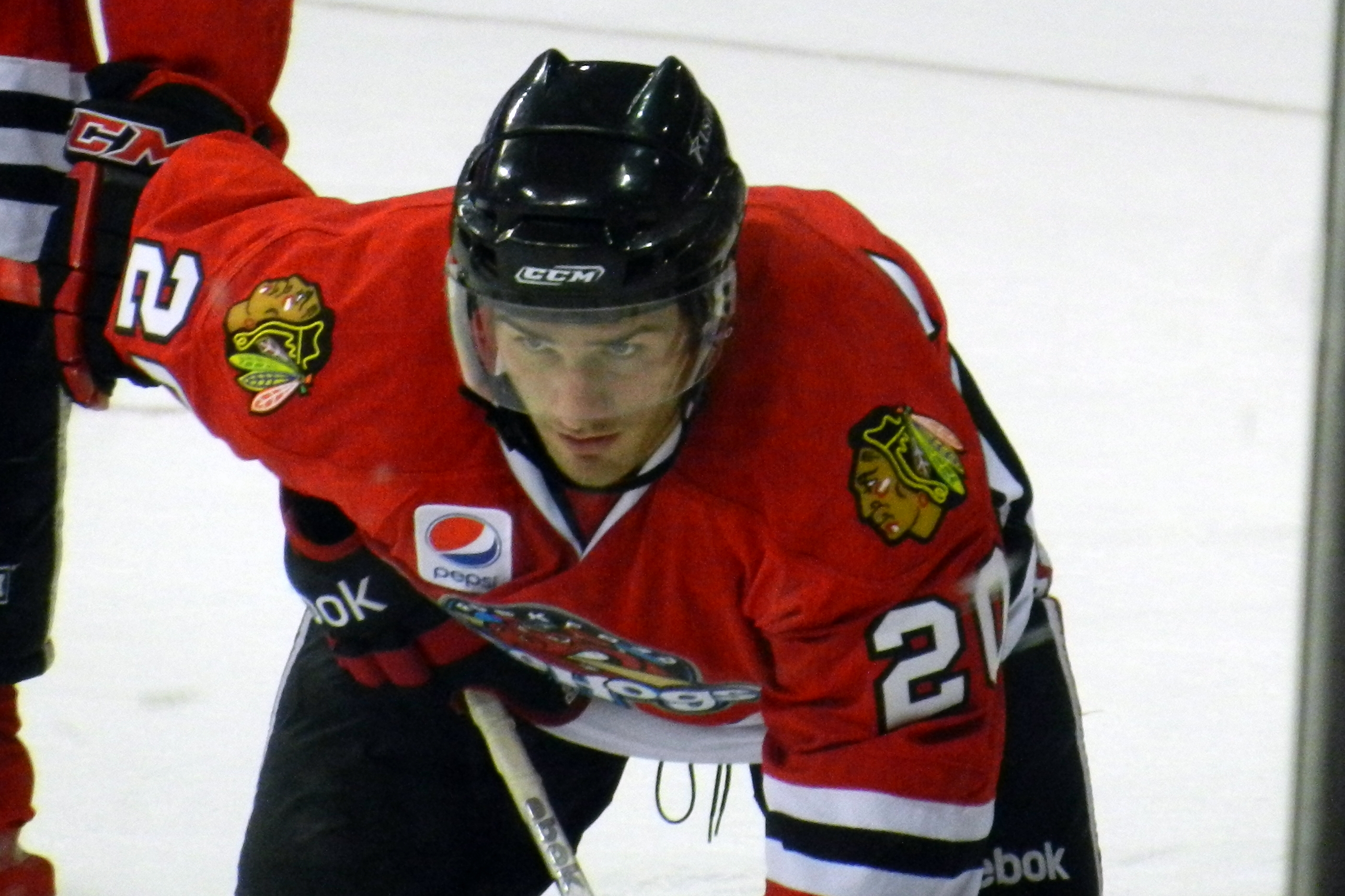 Brandon Saad playing for the Rockford IceHogs during the 2012-13 AHL season.